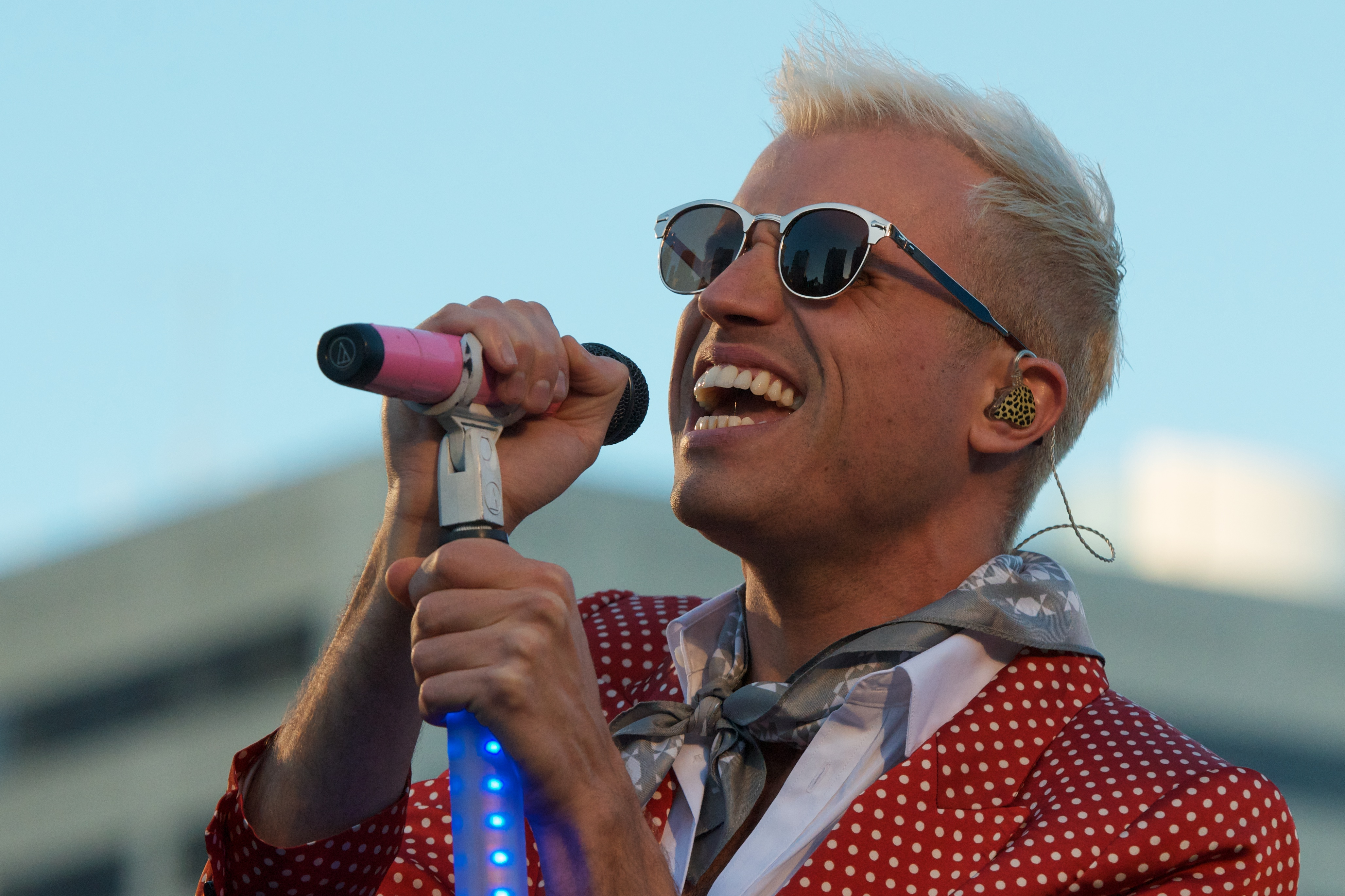 Apple Worldwide Developers Conference Bash 2012